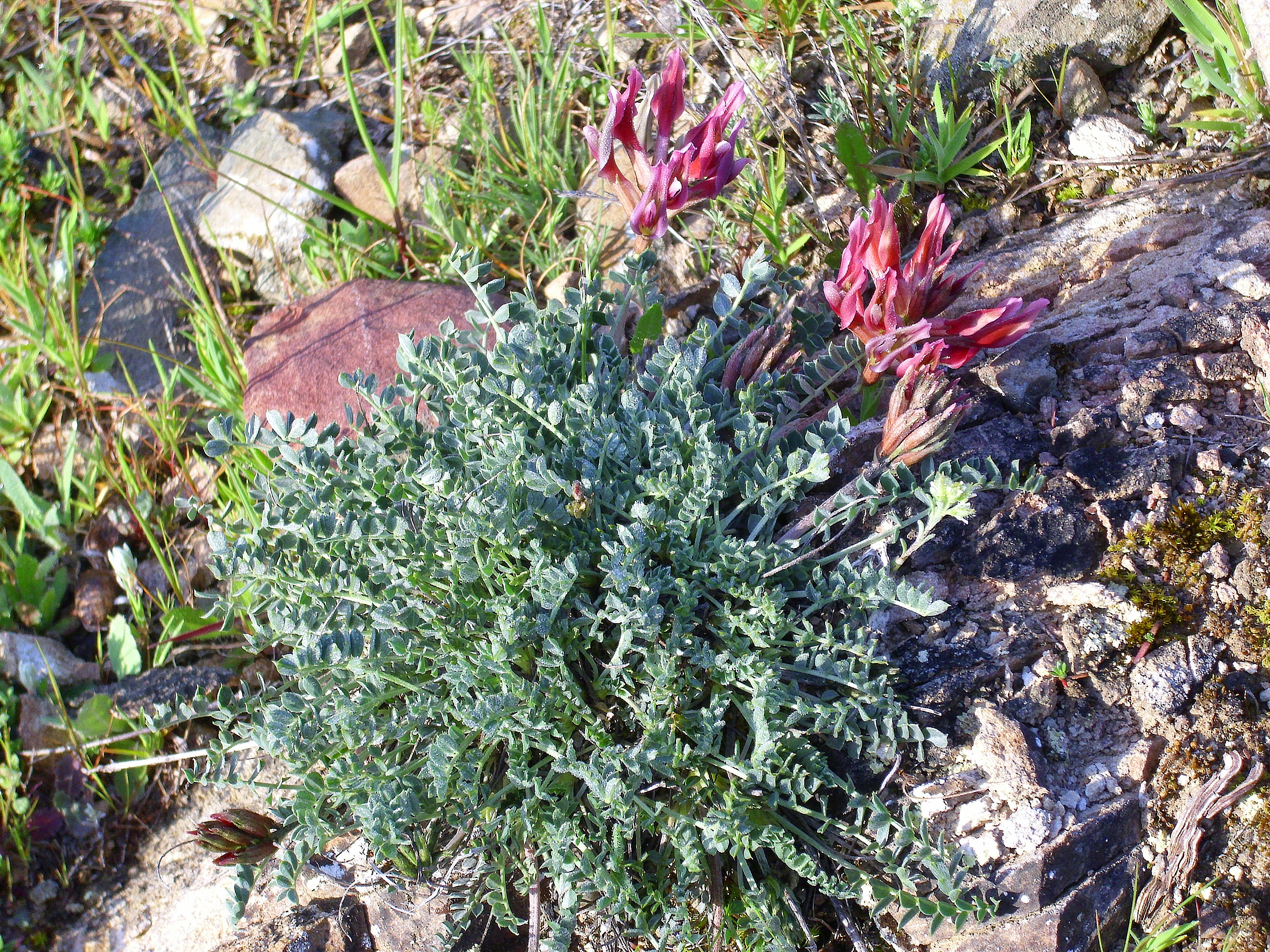 Astragalus incanus habit Campo de Calatrava, Spain